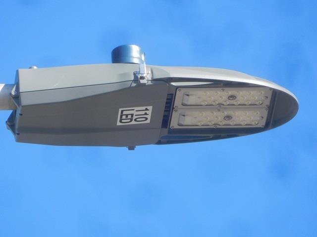 History of street lighting : E-Lite Star SL3S 110 watt variant.